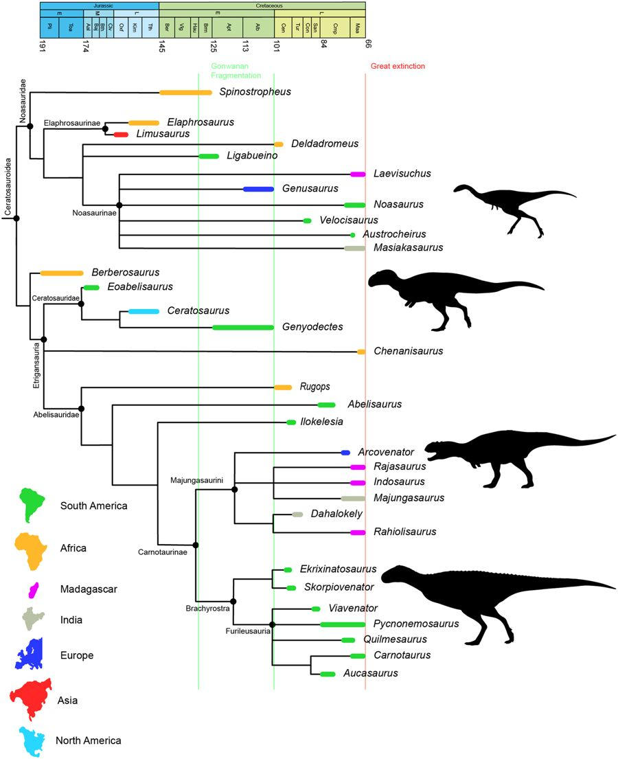 The phylogenetics of the Etrigansauria (2018)